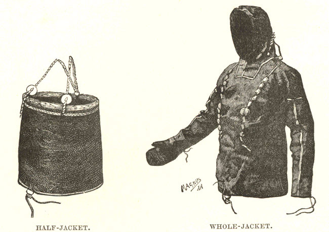 Sketches of kayaking gear, labelled "half-jacket" and "whole-jacket" (akuilisaq and tuilik). Original book text, with original spelling of "kayak"ː "In fair weather the kaiak-man uses the so-called half-jacket (akuilisak). This is made of water-tight skin with the hair removed, and is sewn with sinews. Round its lower margin runs a draw-string, or rather a draw-thong, by means of which the edge of the jacket can be made to fit so closely to the edge of the kayak-ring that it can only be pressed and down down over it with some little trouble. This done, the half-jacket forms, as it were, a water-tight extension of the kaiak. The upper part of the jacket comes close up to the armpits of the kaiak-man, and is supported by braces or straps, which pass over the shoulders and can be lengthened or shortened by means of handy runners or buckles of bone, so simple and yet so ingenious that we, with all our metal buckles and so forth, cannot equal them. Loose sleeves of skin are drawn up over the arms, and are lashed to the overarm and to the wrist, thus preventing the arm from becoming wet. Watertight mittens of skin are drawn over the hands. This half-jacket is enough to keep out the smaller waves which wash over the kaiak. In a heavier sea, on the other hand, a whole-jacket (tuilik) is used. This is made in the same way as the half-jacket, and, like it, fits close to the kayak-ring, but is longer above, has sleeves attached to it, and a hood that comes right over the head. It is laced tight around the face and wrists, so that with it on the kaiak-man can go right through the breakers and can capsize and right himself again, without getting wet and without letting a drop of water into the kaiak."